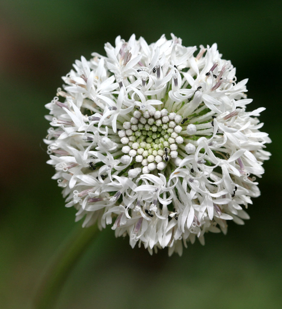 Spoonshape Barbara's buttons, Marshallia obovata, flower head. Location: Durham County, North Carolina, United States. Identification reference: Albert Radford, H.E. Ahles, and C. R. Bell (1968). Manual of the Vascular Flora of the Carolinas. Chapel Hill, North Carolina: University of North Carolina Press. ISBN 0807810878.